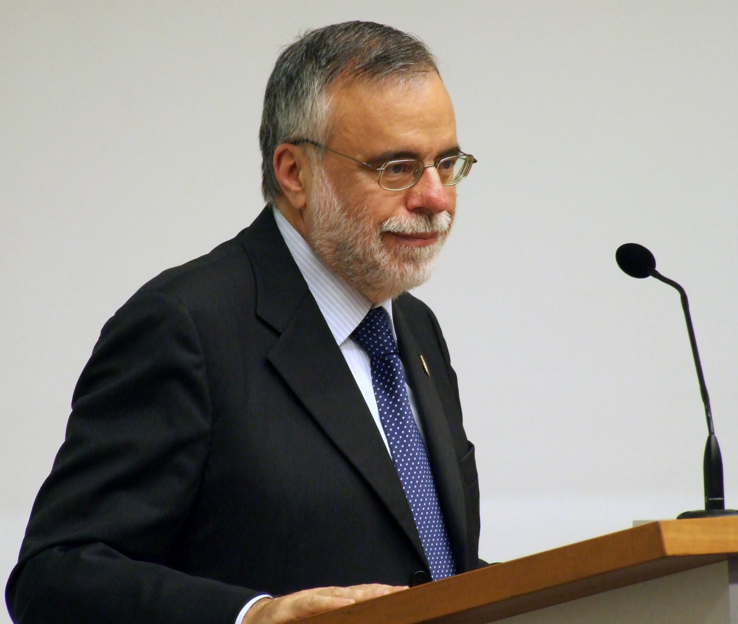 Andrea Riccardi, the day before the Karlspreis-award 2009